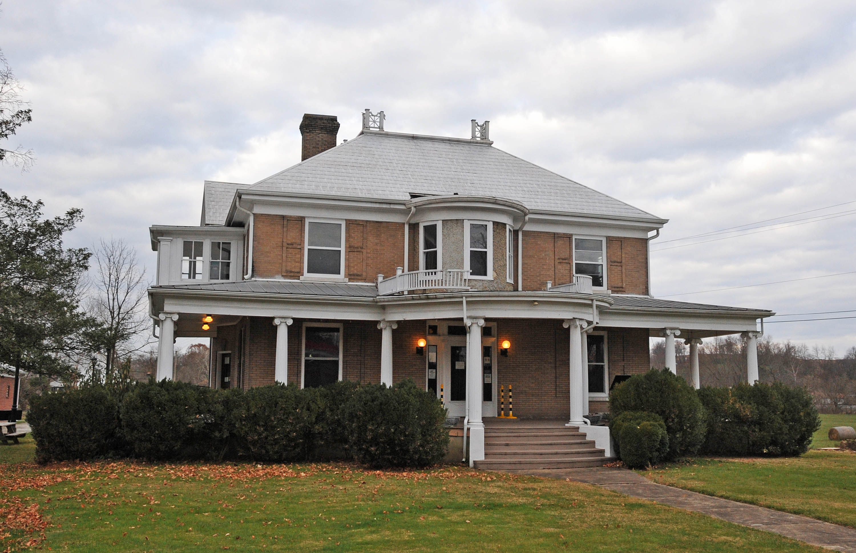 1911 COLONIAL REVIVAL STYLE. IT IS NOW USED AS THE LOCAL MUSEUM